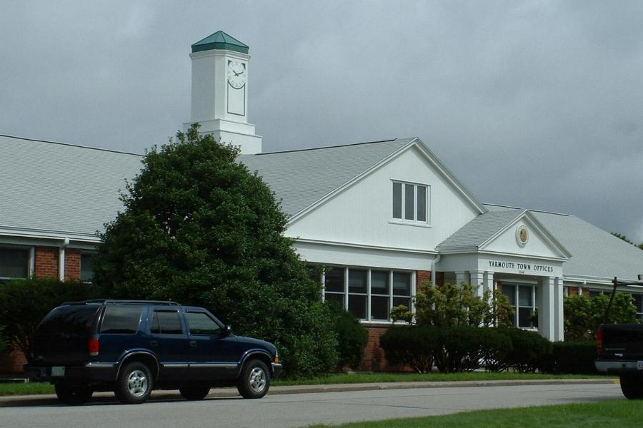 Yarmouth Town Offices, located along Route 28 in Yarmouth, Massachusetts.